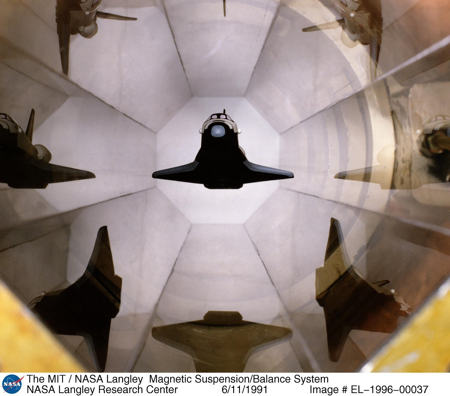 A shuttle model is magnetically suspended in the transparent octagonal test section of the MIT / NASA Langley 6 Inch MSBS. Massive power supplies are required to drive electromagnets for model position control. A unique electromagnetic position sensor, similar to a linear variable differential transformer, provides five degrees of freedom for the test model. The low speed (Mach 0.5) wind tunnel was hand crafted from mahogany. Aerodynamic forces on the test model are measured by the proportional electrical current used to hold the model in place. The system was built by MIT in the late sixties and was relocated to Langley in the mid eighties. In a joint effort with Old Dominion University in 1992 the MSBS was used to test the aerodynamics of store separation, simulating a bomb released from an aircraft. The system has been donated to Old Dominion University. NASA Identifier: L91-6504